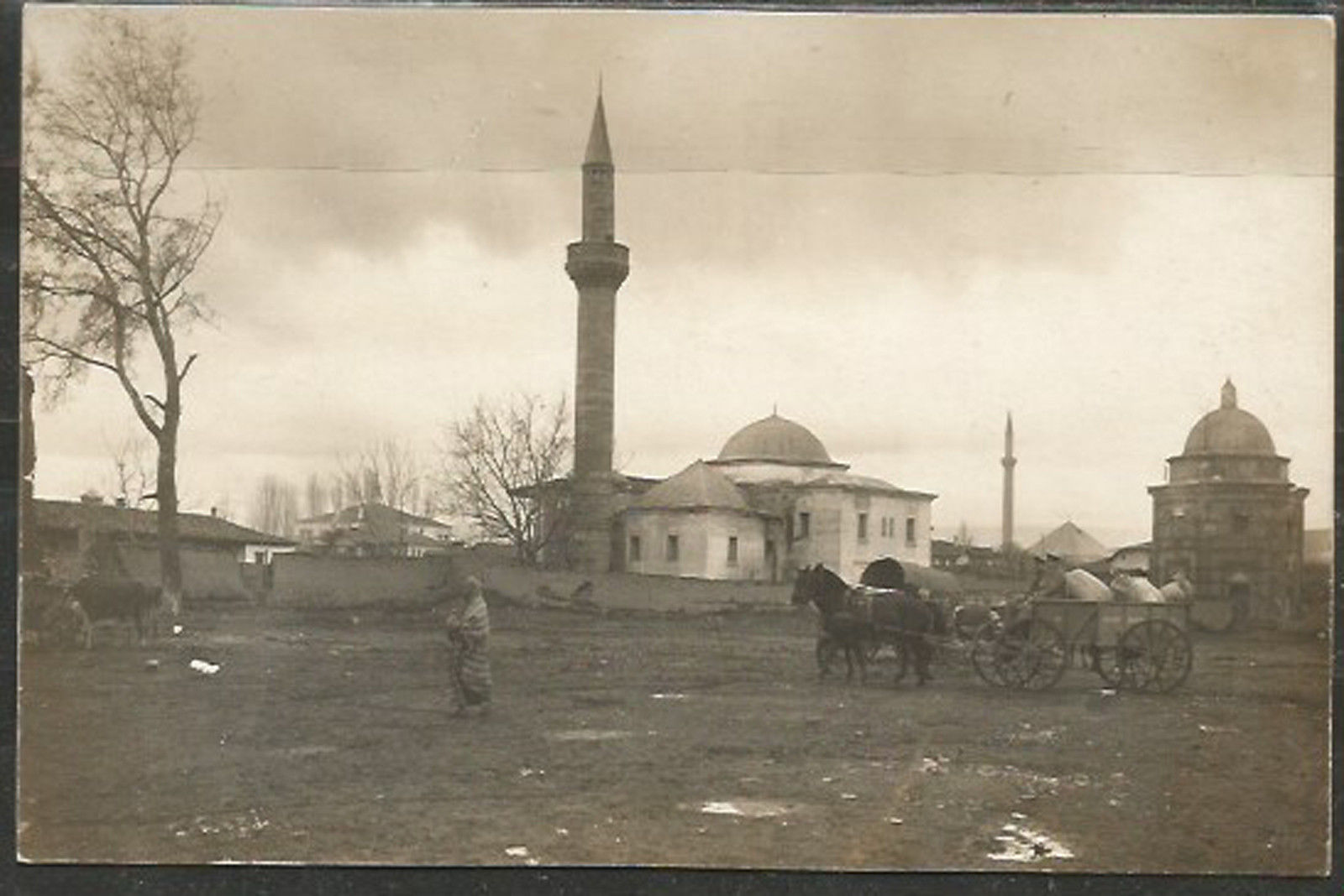 Skopje Isak Bey Turbe Aladja Mosque